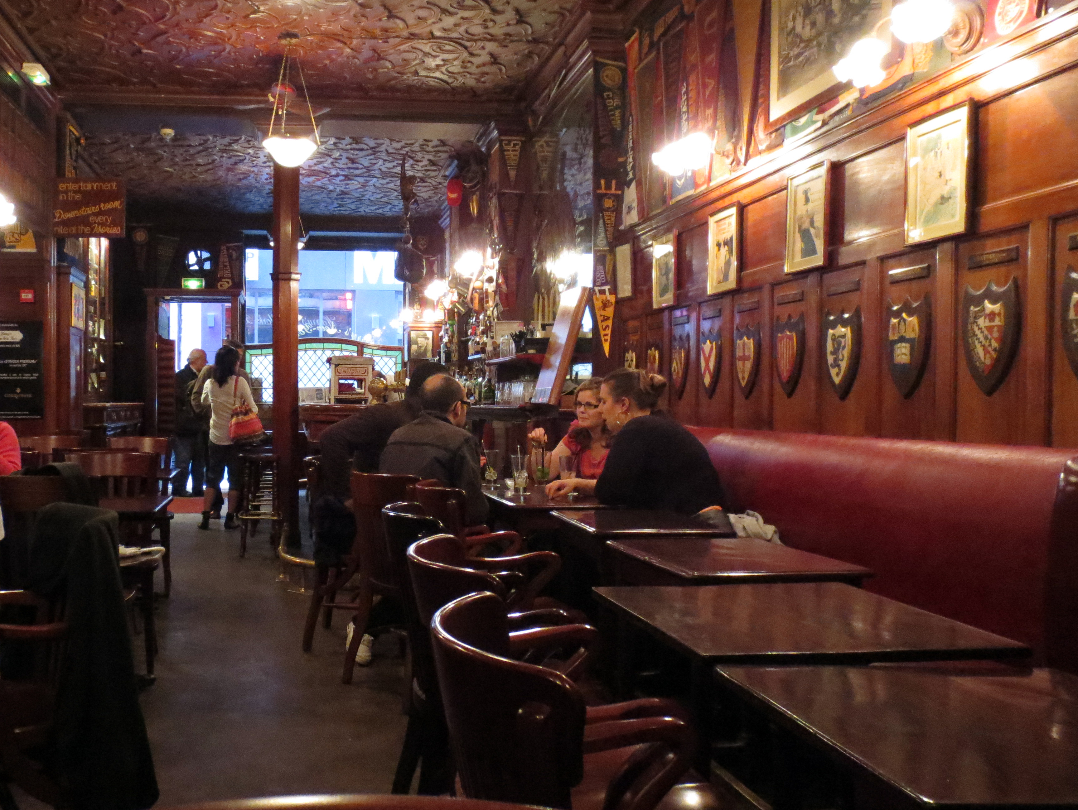 Harry's New York Bar, Paris.